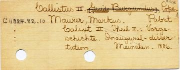 Catalog card used in the Harvard College Library. The classification C denotes Church History and Theology